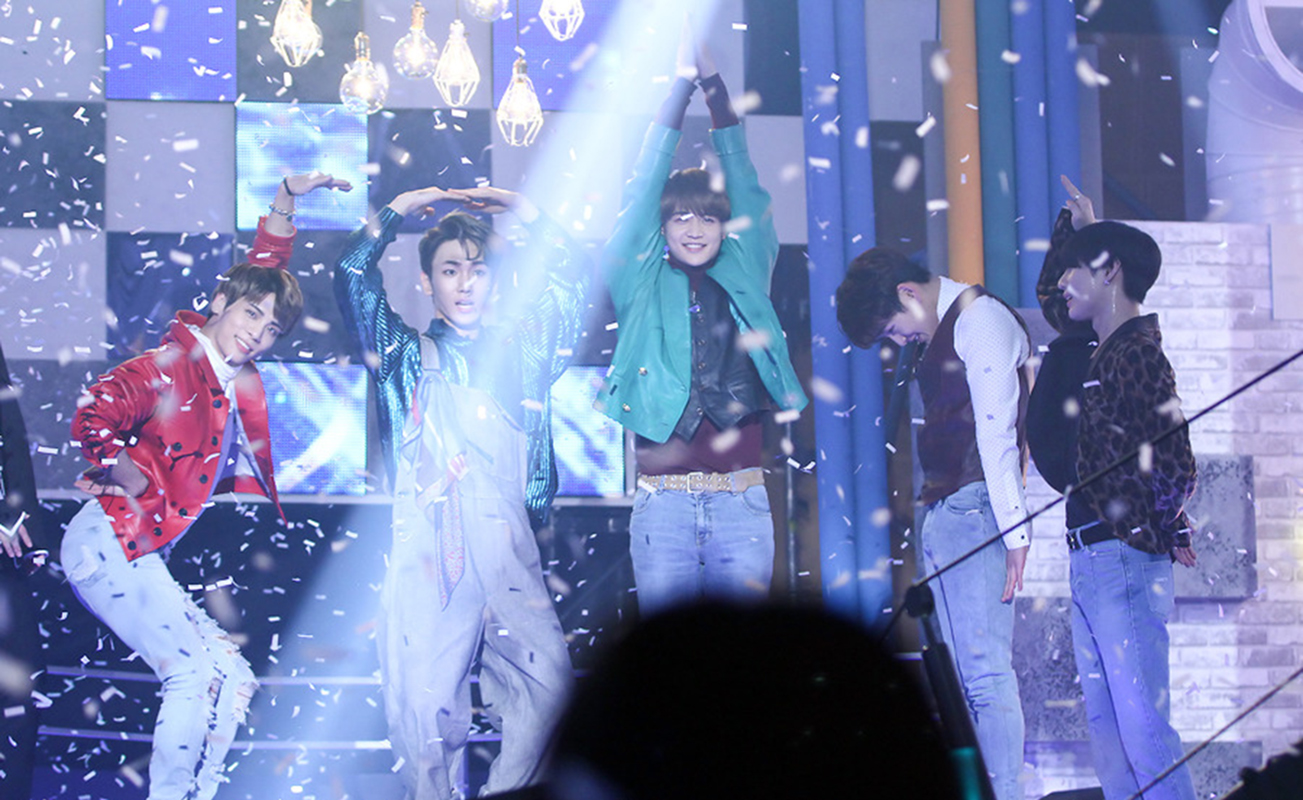 SHINee performing at MBC Gayo Daejejeon on December 31, 2016.